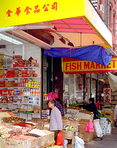 Chinatown, A fish market in Chinatown, Manhattan, NYC Location: Manhattan.